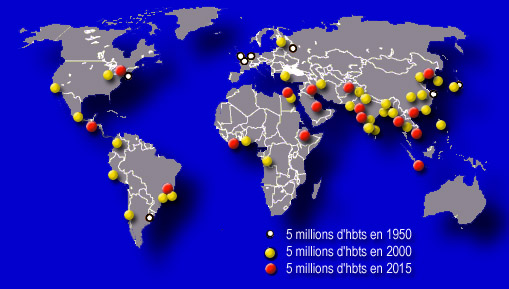 Map of biggest towns, and prospective